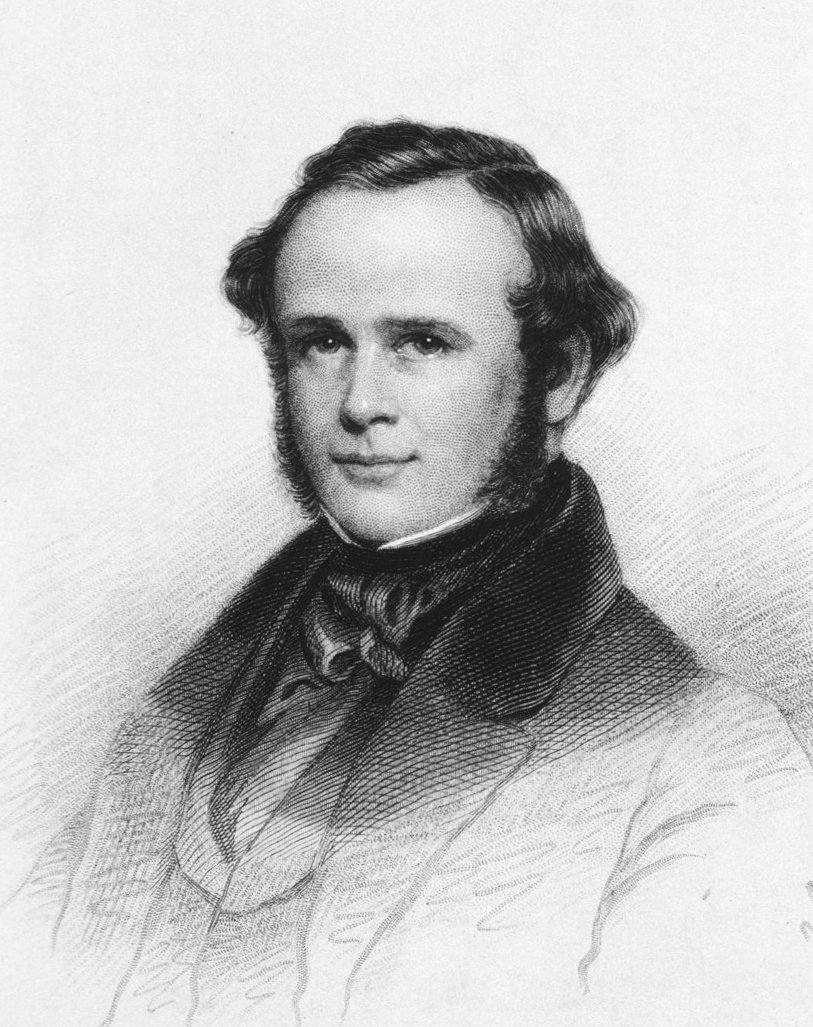 Picture of Dr. Horace Wells, a pioneer in the use of ether as an anesthetic